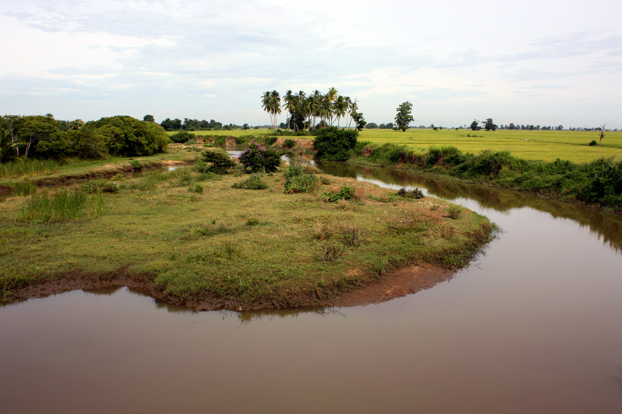 Oluvil - paddy field seen Oluvil bridge, near Southeastern University, Sri Lanka